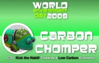 cover art screenshot of a free online game by an independant publisher was launched for WED 2008 with this year's theme "CO2, Kick the Habit! Towards a Low Carbon Economy." the game was called Carbon chomper and can be played for free at this link[1]